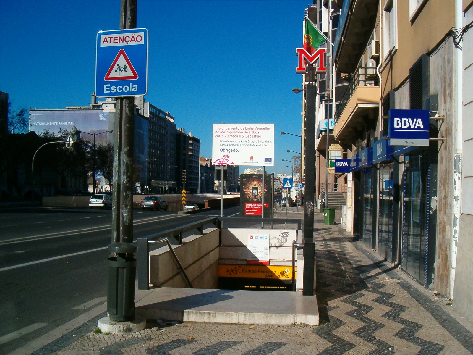 Metro station Campo Pequeno (Lisboa)